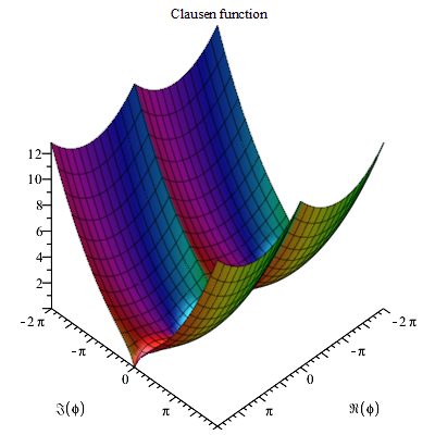 Clausen function plot